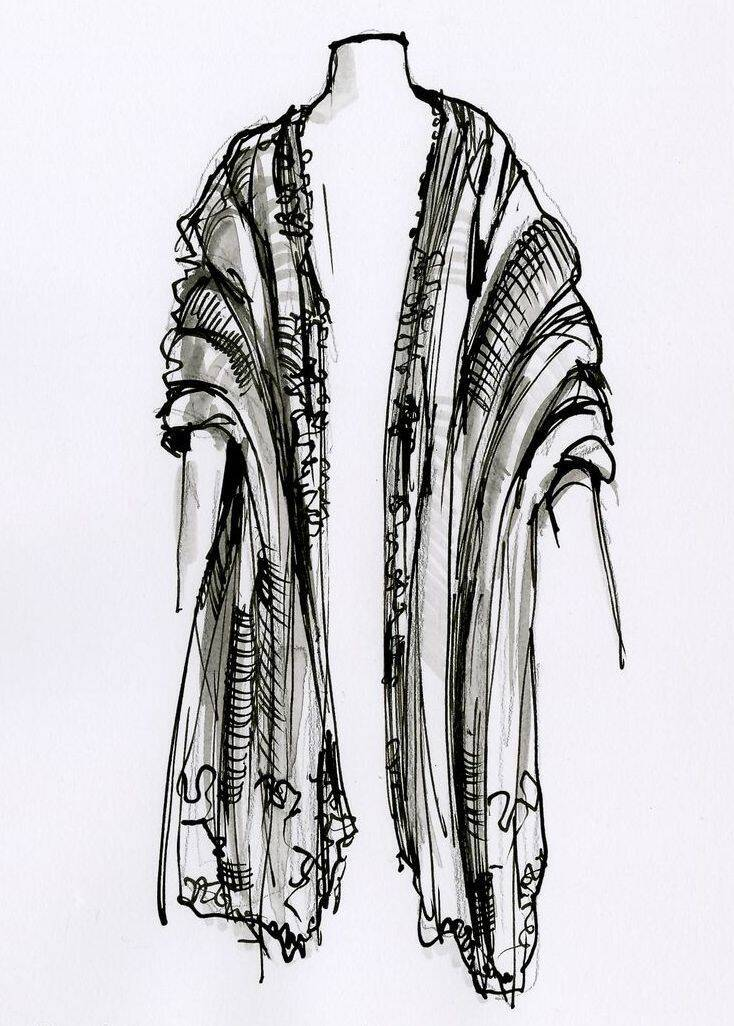 The description of the concept in this drawing is: Long and narrow unshaped garments made from cloth or fur and used as a covering for the shoulders and arms. (AAT)